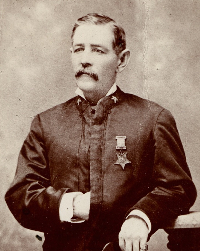 Halftone reproduction of a photograph of Medal of Honor recipient Chief Quartermaster Cornelius Cronin, published in "Deeds of Valor," Volume II, page 64, by the Perrien-Keydel Company, Detroit, 1907